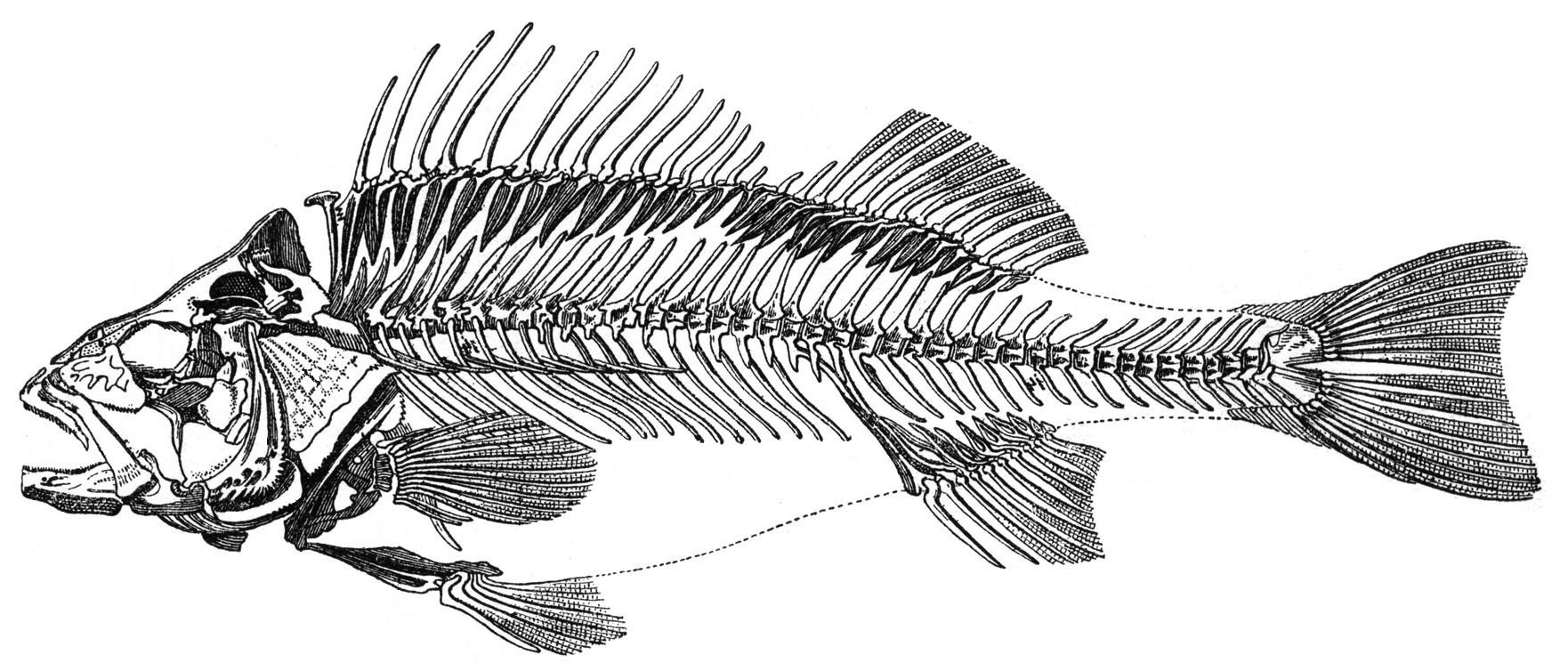 Skeleton of a bass (drawing)A flipped and stripped version of this drawing